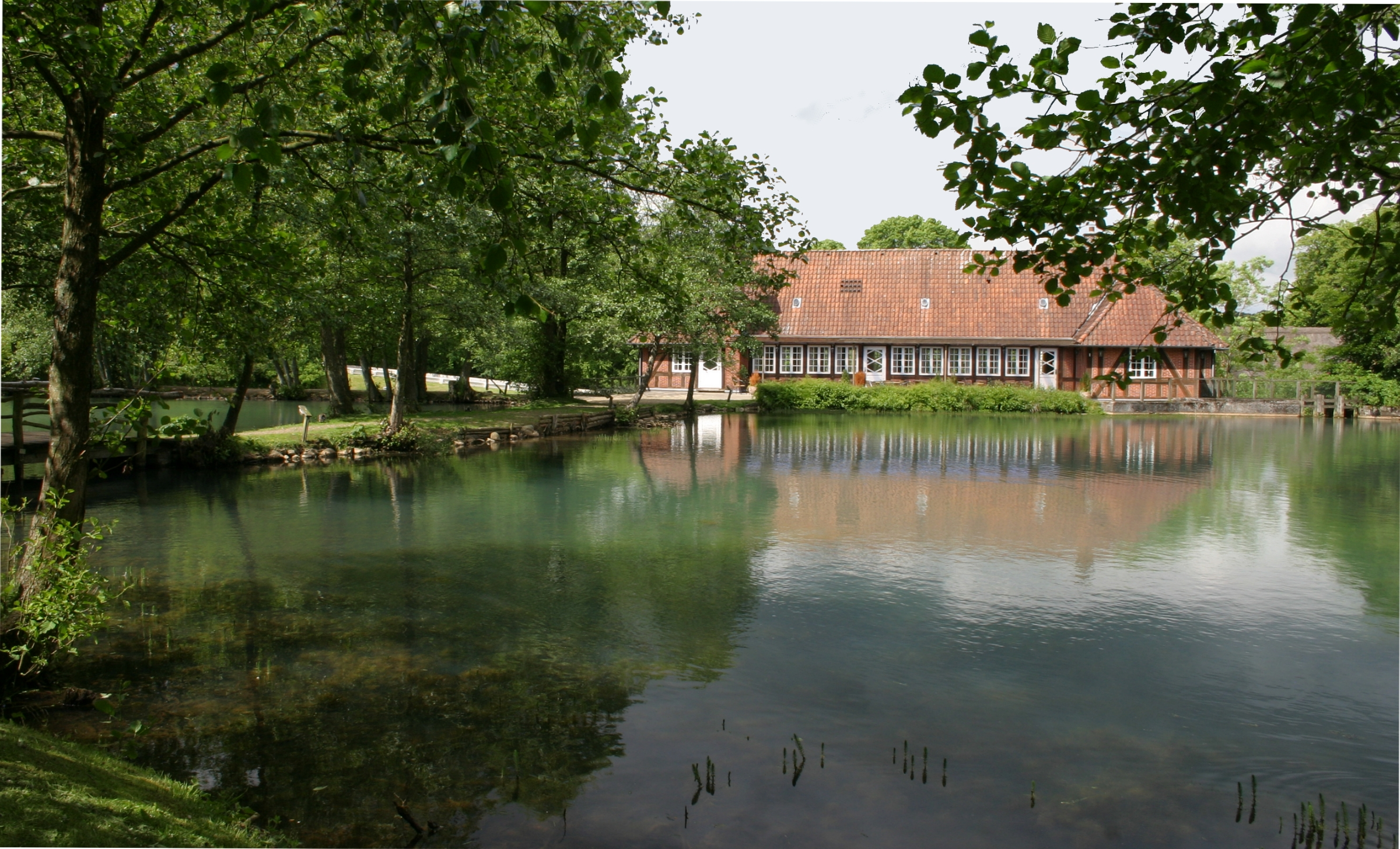 Pøt Mølle.An old mill, located in Granslev Ådal near Hammel in Denmark, built in 1300-1400.It burned down in 1954, but was rebuilt.